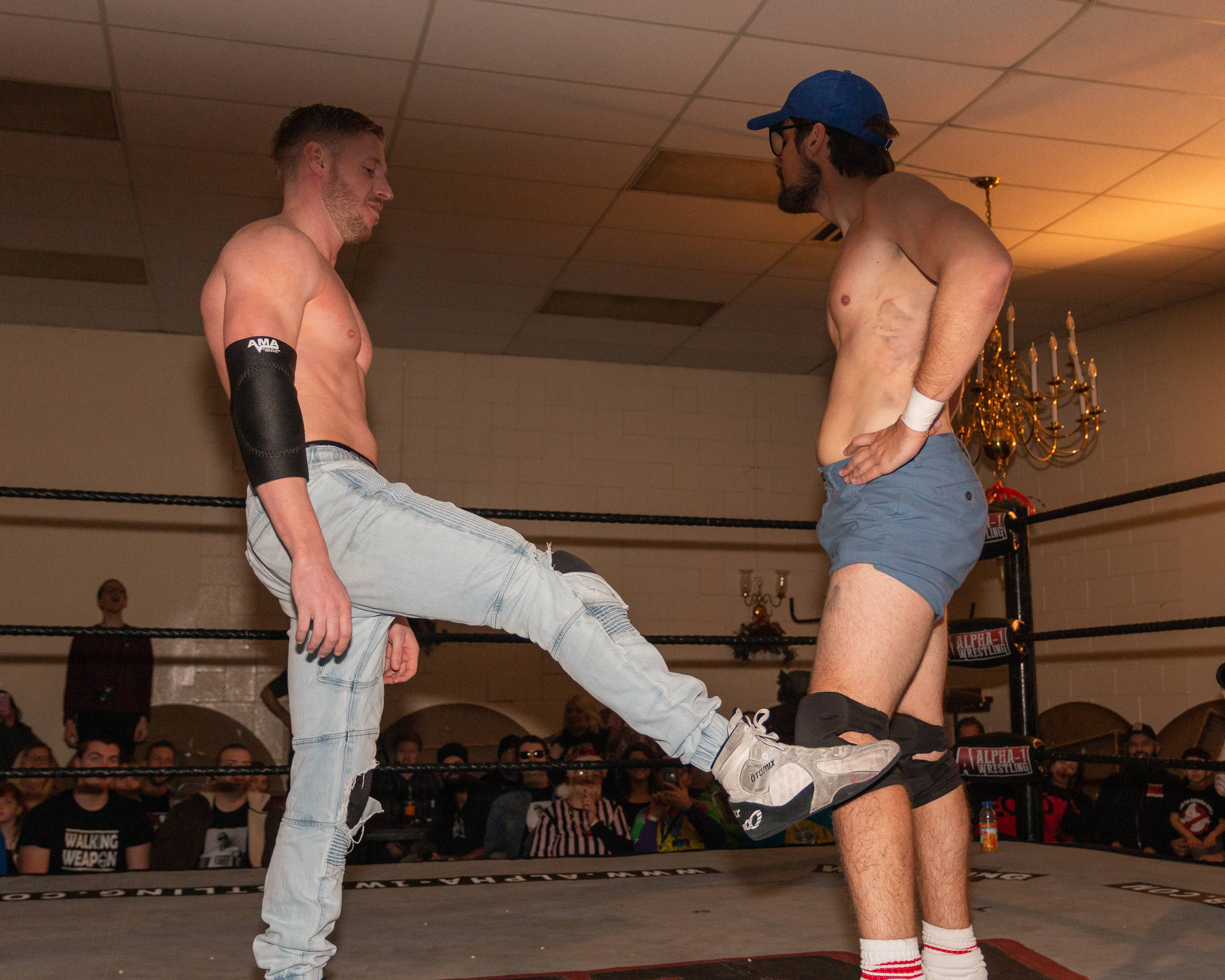 Orange Cassidy executing his one of his signature kicks against Dan the Dad at an Alpha-1 show in Hamilton, ON